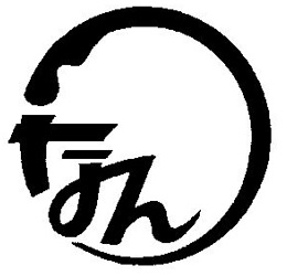 Tsunan Niigata chapter